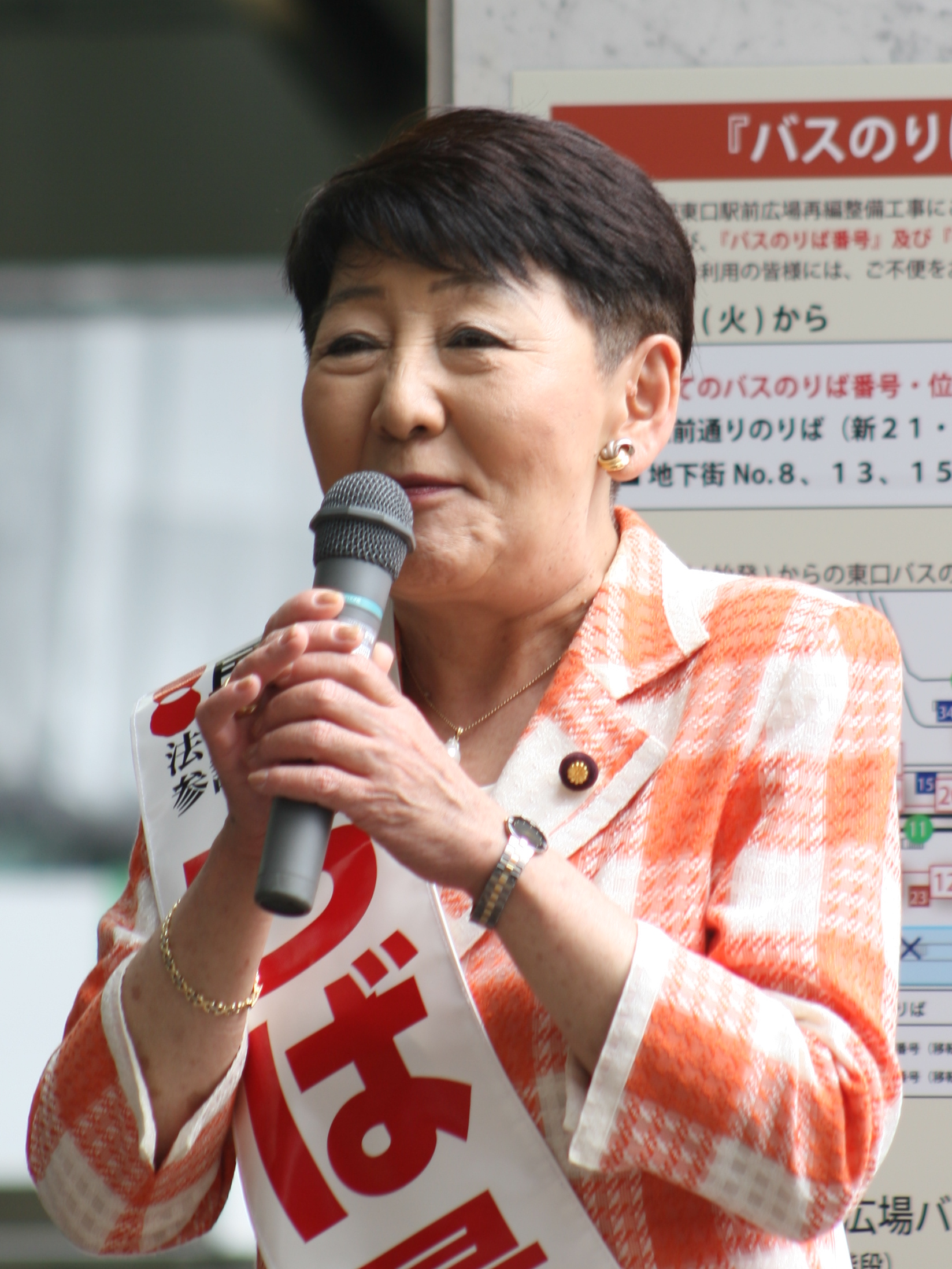 Keiko Chiba, Minister of Justice of Japan during her election campaign (2010 House of Councillors election) in front of Kawasaki railway station in Kawasaki, Japan